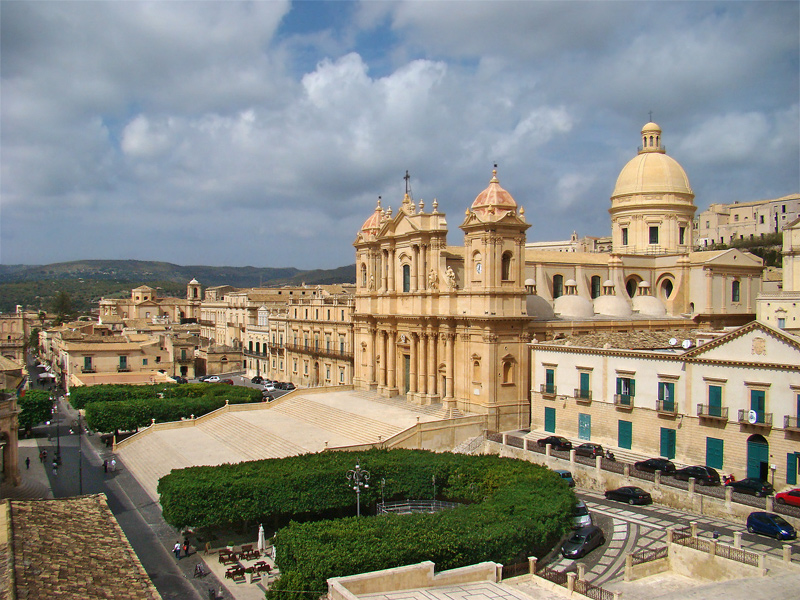 Cathedral of San Nicolò, Noto, Sicily, Italy.